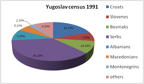 Pie chart of the national composition of the 1991 Yugoslav census (in %)